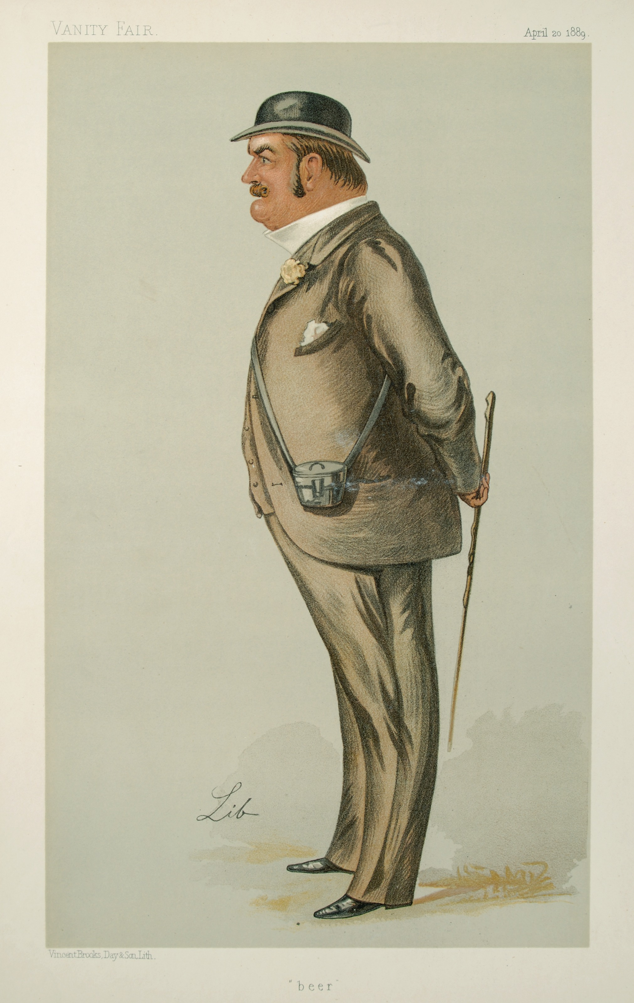 The Hon. George Higginson Allsopp, M.P. : "beer". Lithograph April 20, 1889, 15"x10.5", Vanity Fair portrait, Statesmen No. 566